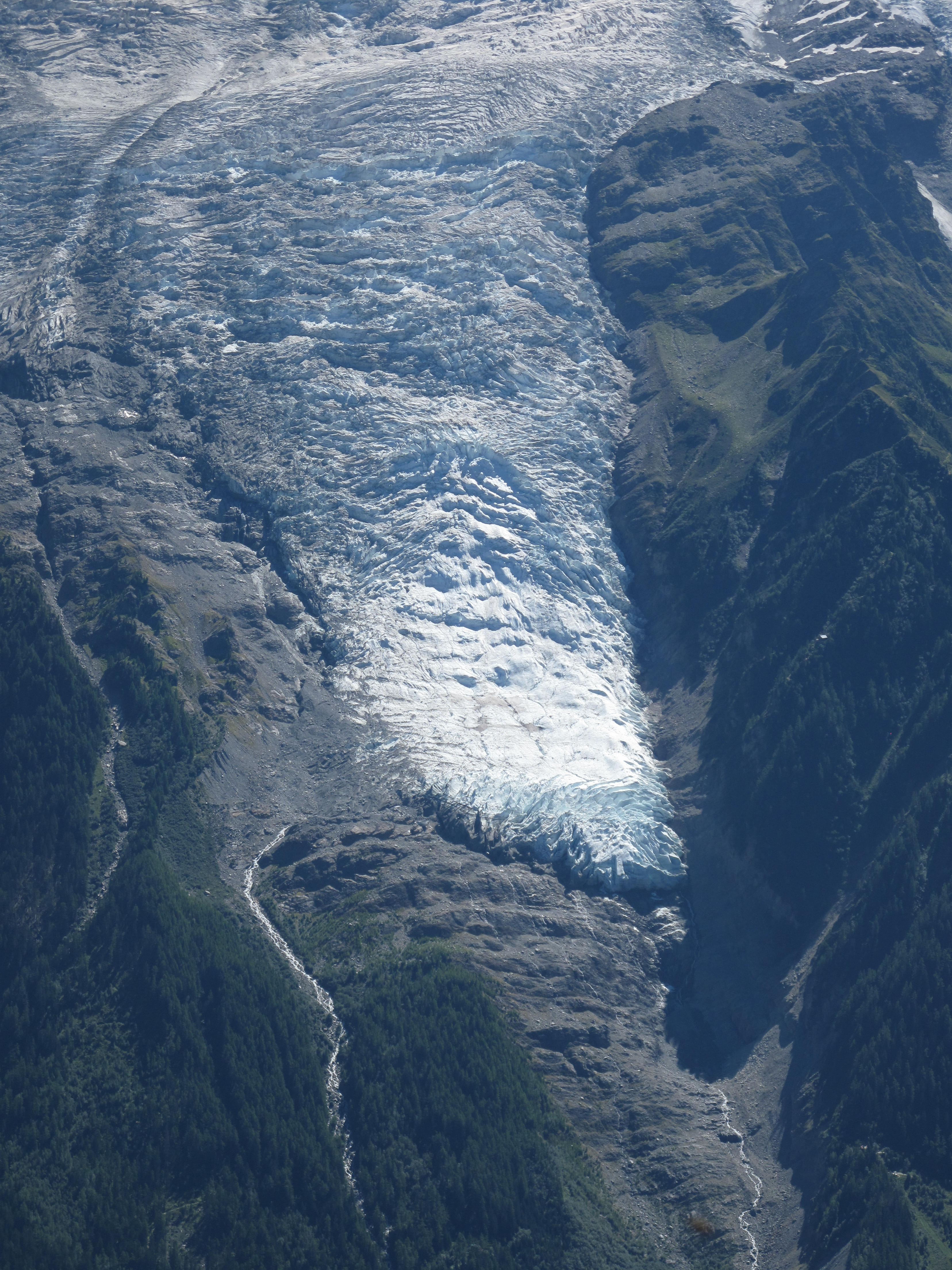 The glacier des Bossons from the Brévent in Chamonix (Haute-Savoie, France).